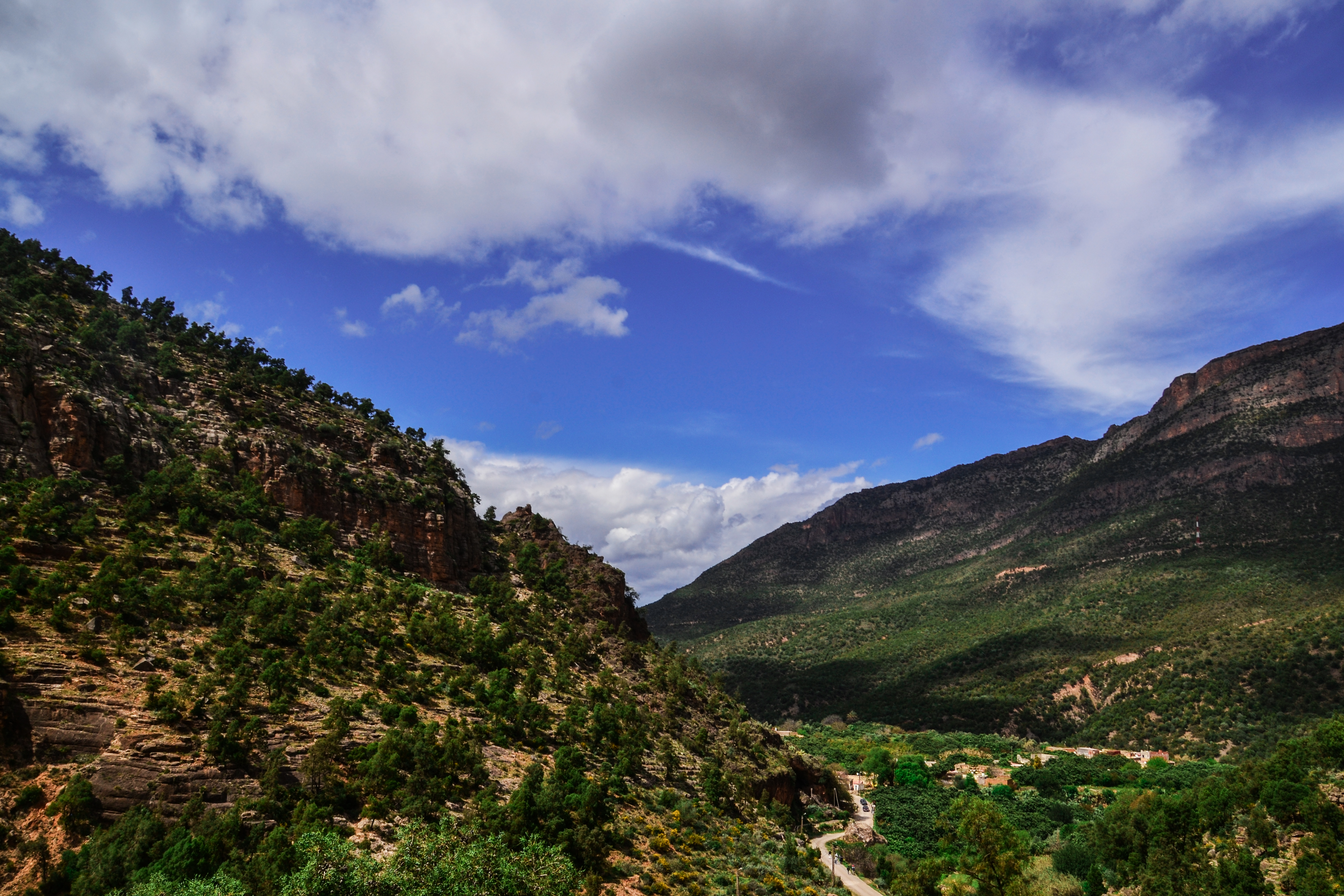 this picture was taken in tafoughalt ( between berkan city and oujda city in morocco)